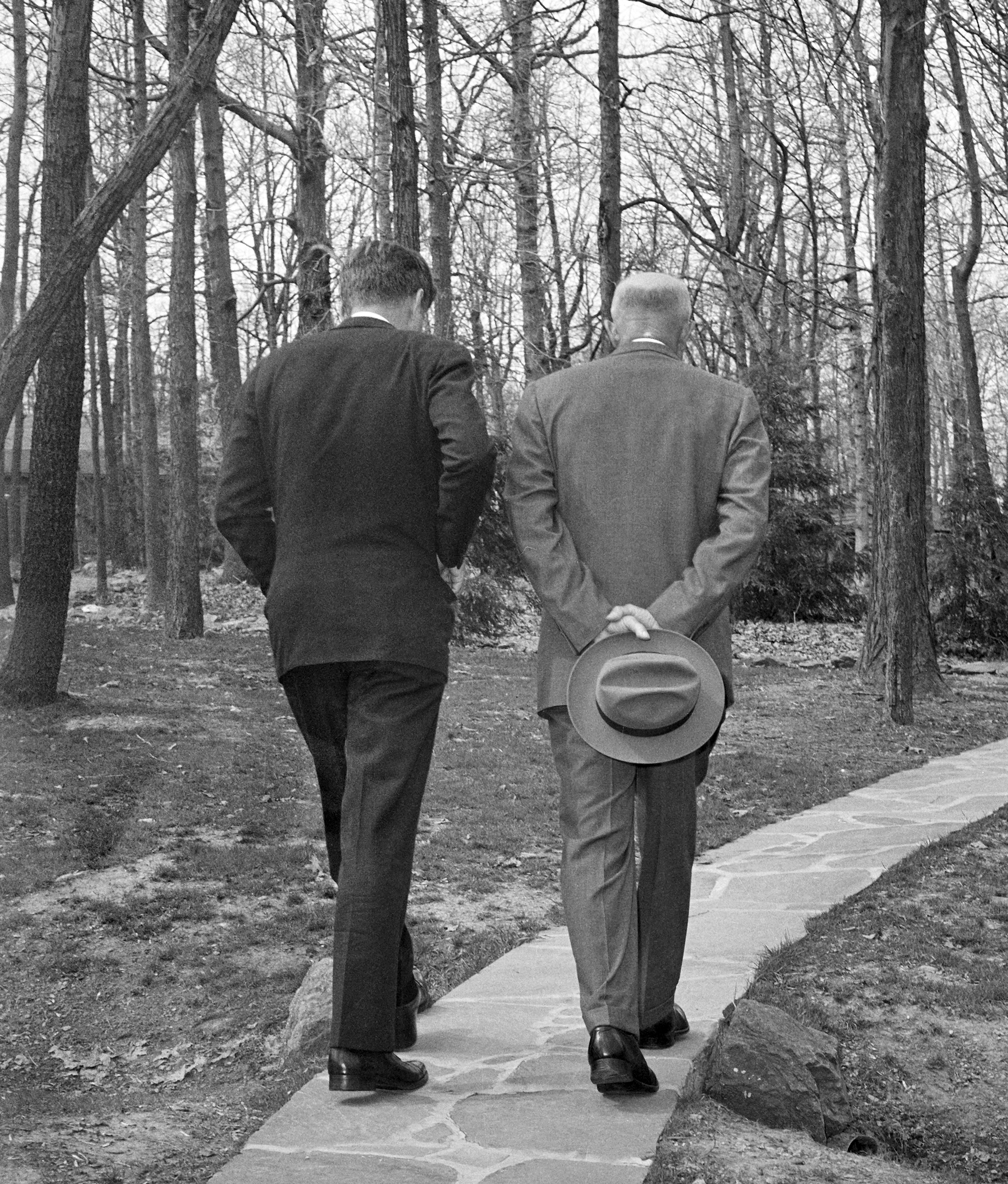 "Serious Steps", photograph of U.S. President John F. Kennedy and former President Dwight D. Eisenhower walking together at Camp David, where they met to discuss the aftermath of the Bay of Pigs Invasion. This photograph won the 1962 Pulitzer Prize for Photography.